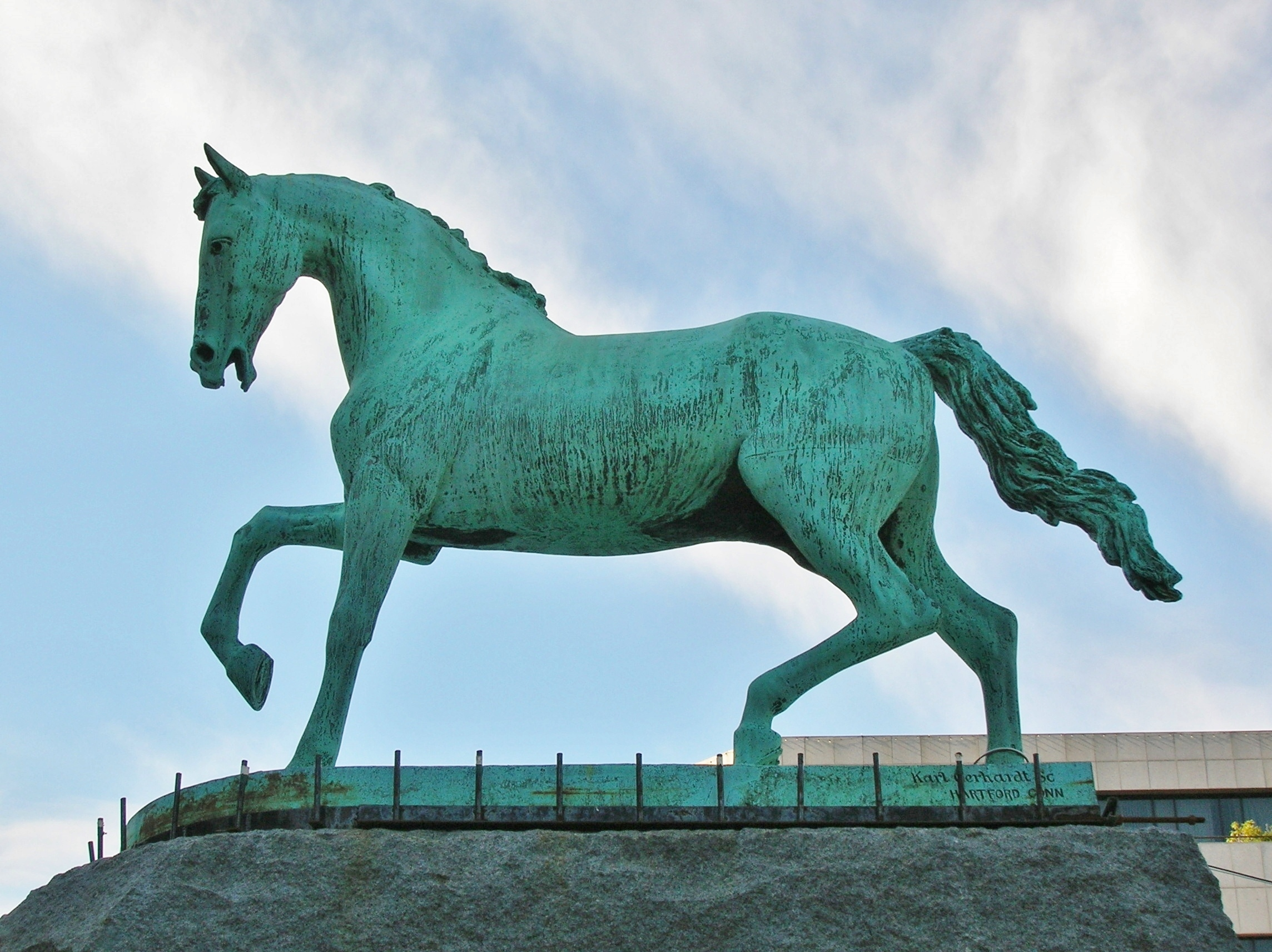 Photograph of sculpture of "Knight," designed and sculpted in 1888 by Karl Gerhardt. Knight was a horse owned by Caroline Josephine Welton of Waterbury, CT. The sculpture is part of the Carrie Welton Fountain, located in Waterbury, CT.